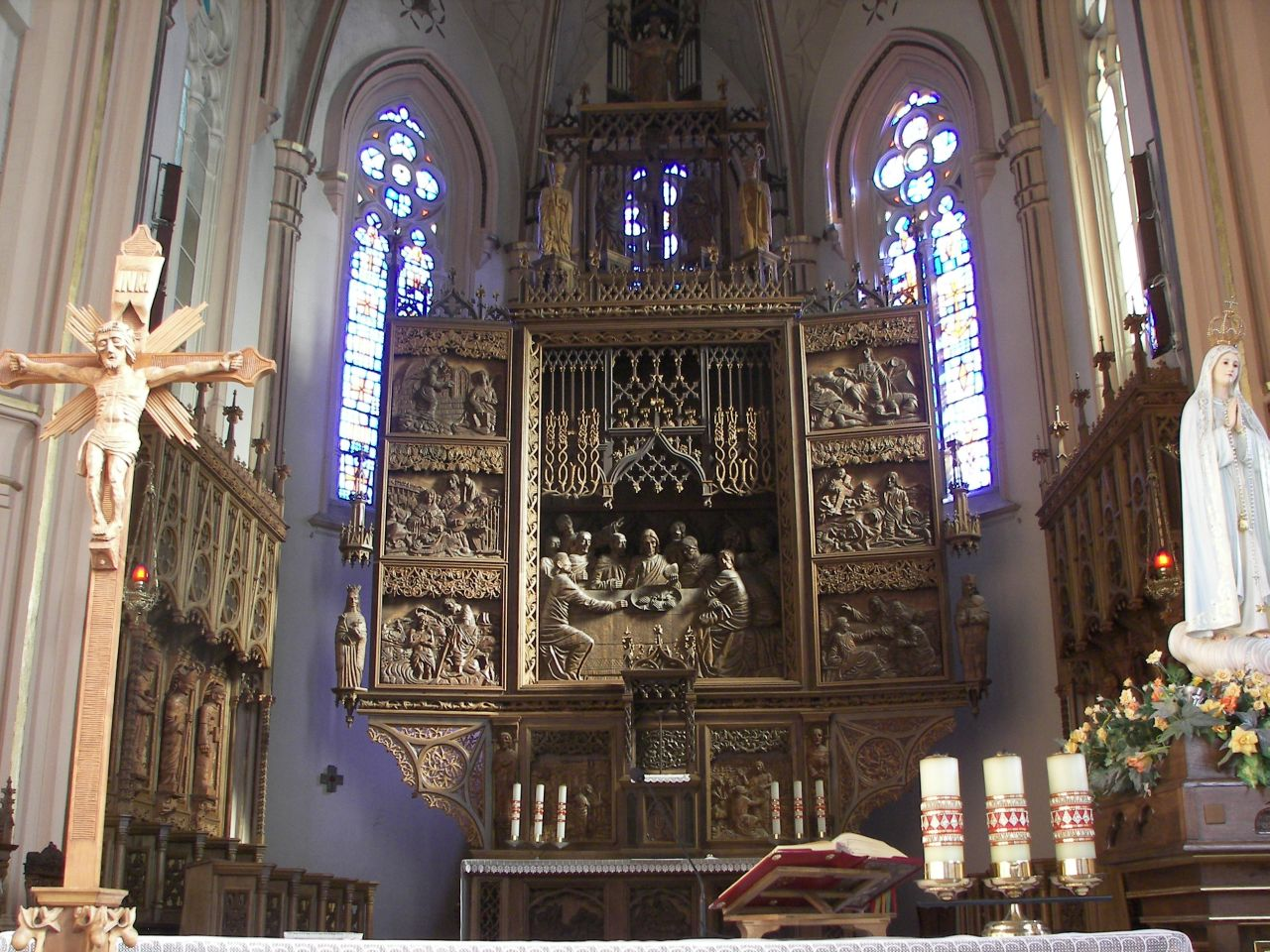 Wilamowice, altar made by Kazimierz Danek.